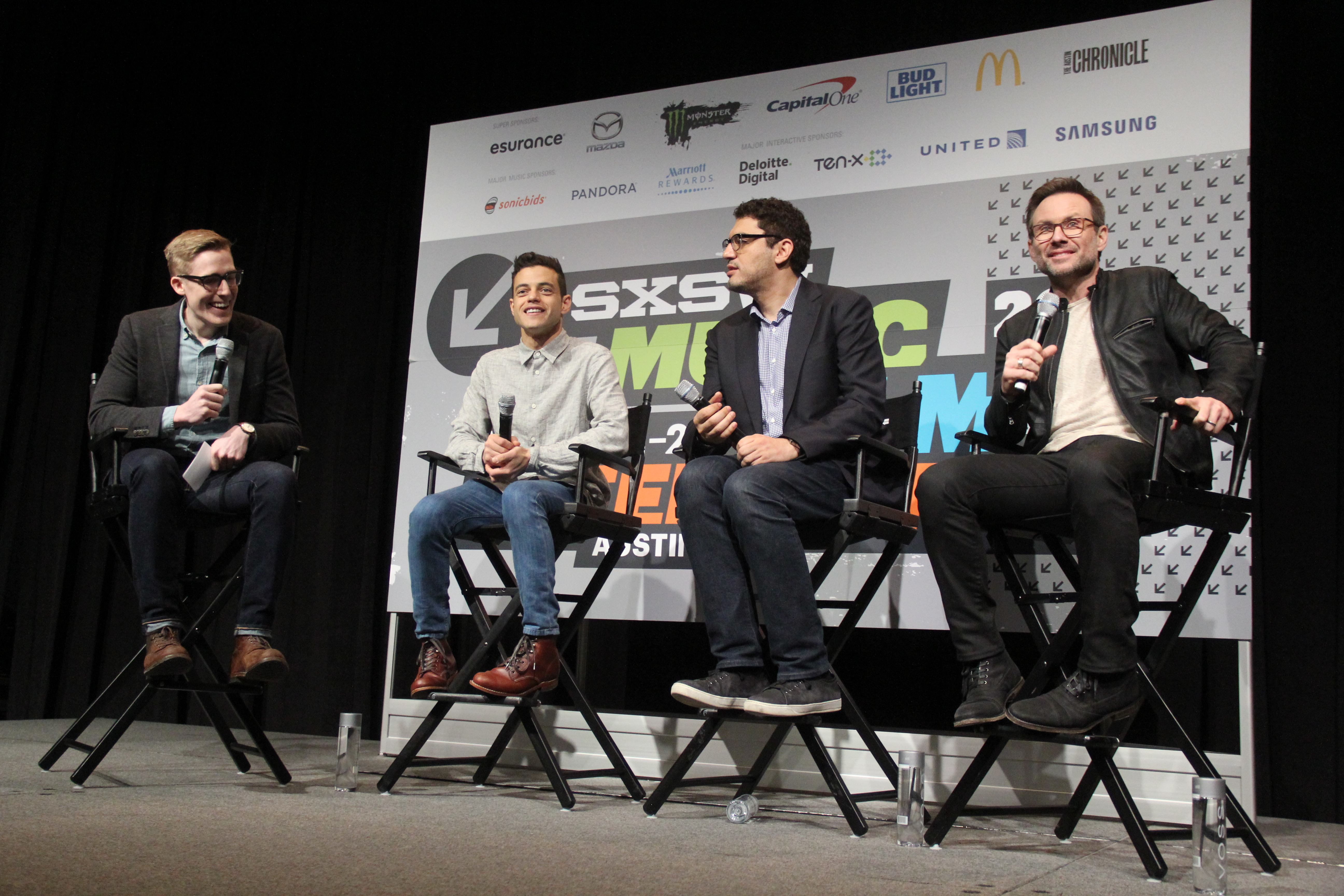 A panel about Mr. Robot (TV series). From left to right, pictured is the moderator (unidentified), Rami Malek, Sam Esmail, and Christian Slater Taken at SXSW 2016.